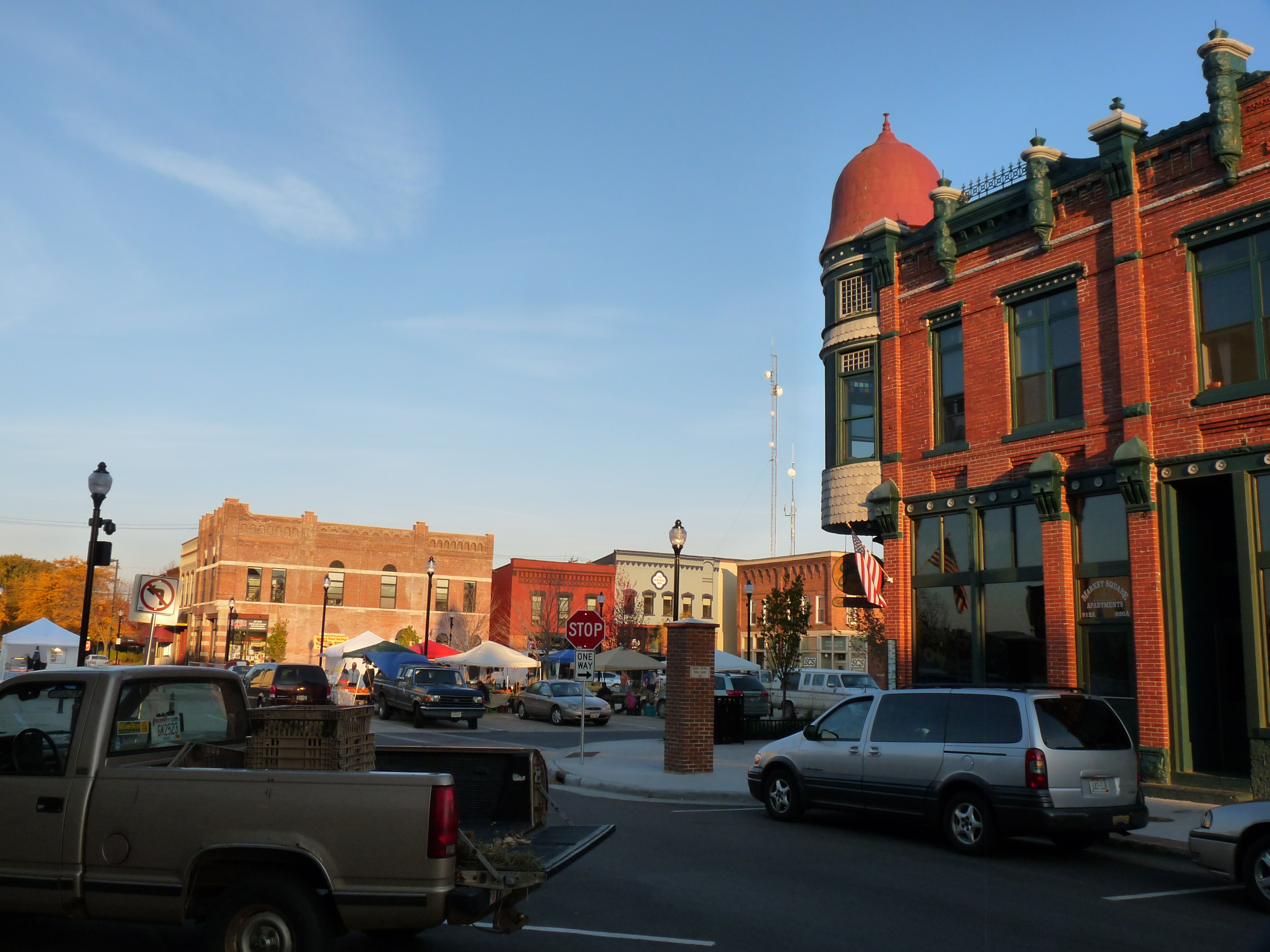 Mathias Mitchell Public Square in Stevens Point, Wisconsin, was platted in 1847. A farmers' market has run there since 1870. In 1986 the square and part of Main Street were designated a historic district on the National Register of Historic Places.